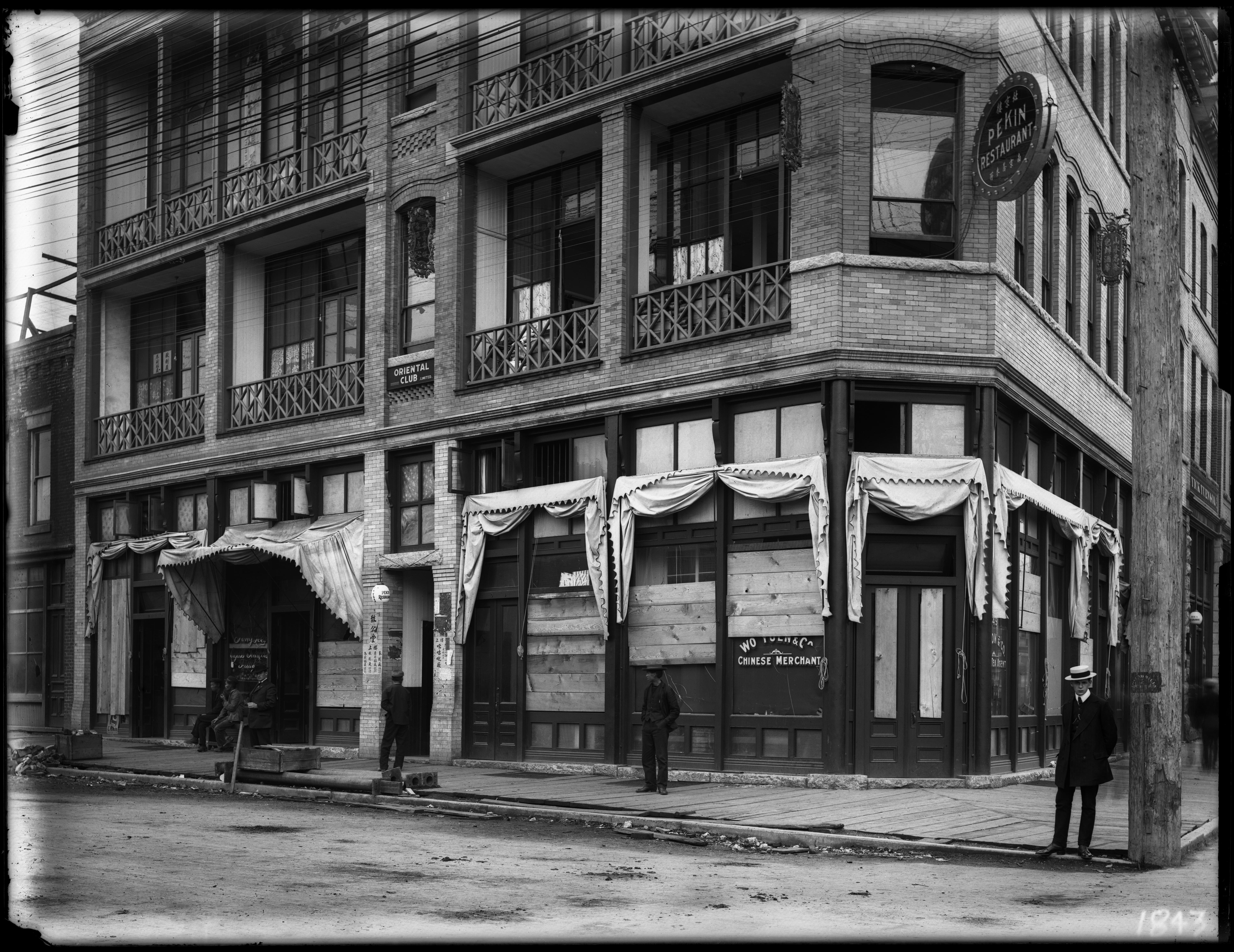 PHOTO NUMBER: VPL 940 DESCRIPTION: Boarded-up buildings in Chinatown after race riots, Carrall Street, Vancouver, BC DATE: 1907 PHOTOGRAPHER: Timms, Philip SUBJECTS: Chinese Canadians, Buildings, Stores More information on our historical photograph collection